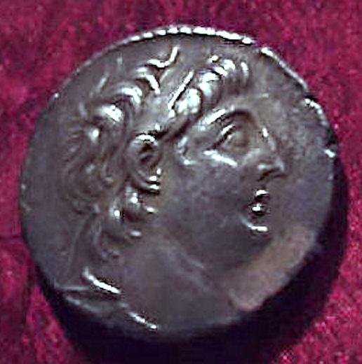 A coin of the Seleucid king Antiochus VII (138-129 BC) from the Christus Gardens collection in Gatlinburg, Tennessee. Antiochus VII was the last Seleucid king of any influence. After his reign, the Seleucid Empire fell into a gradual and precipitous decline with a severe loss in territory and influence. It was finally conquered and transformed into a Roman province in 63 BC by Pompey.